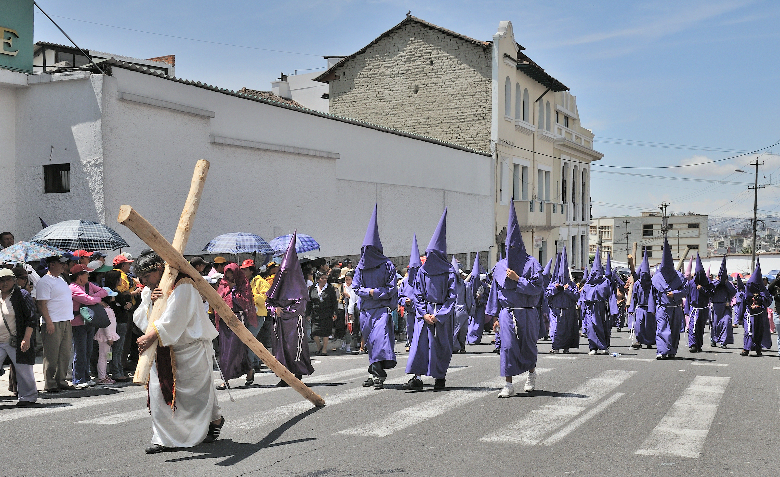 Ecuador, Quito: Procession on Good Friday 2010 (Procession of Jesus of the Great Power).. Équateur, Quito,Vendredi saint : Procession de Jésus au grand pouvoir.